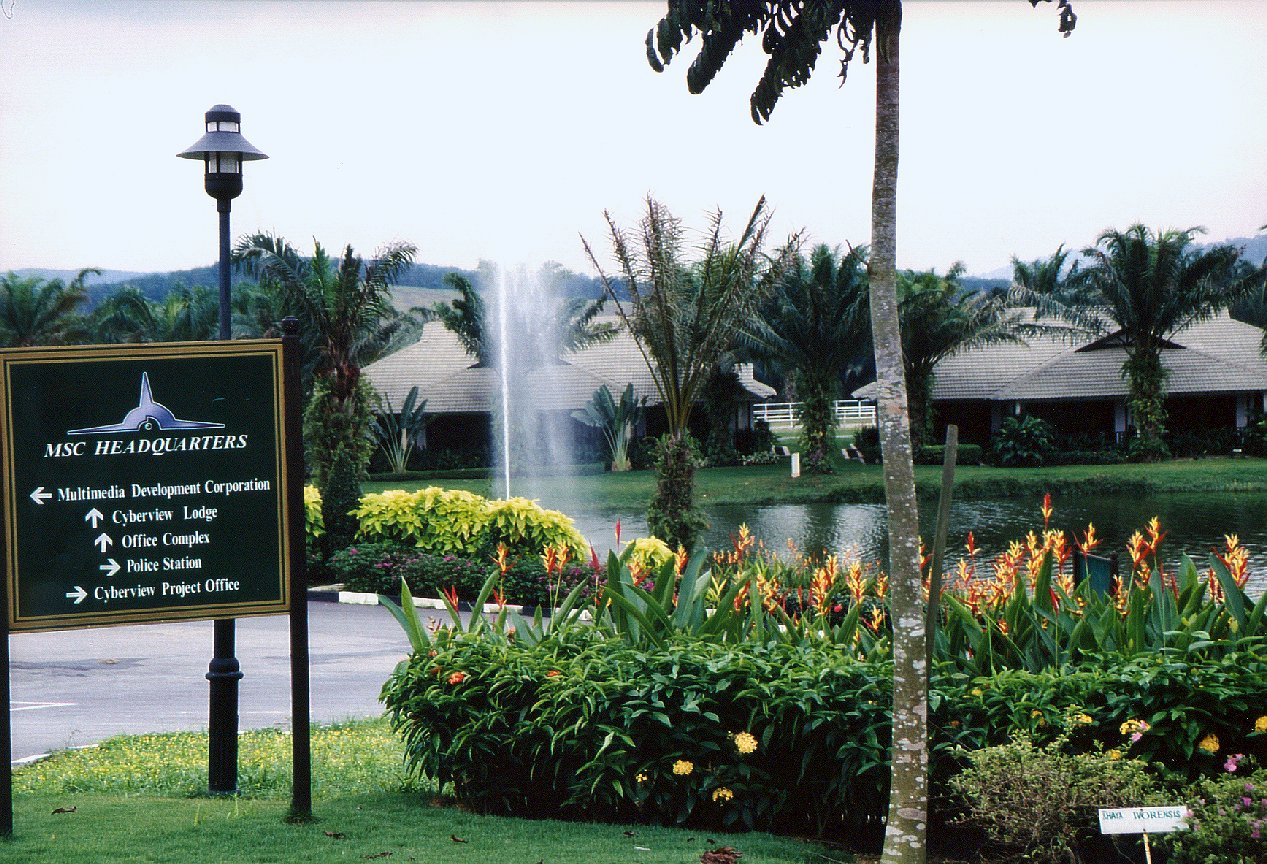 Cyberjaya